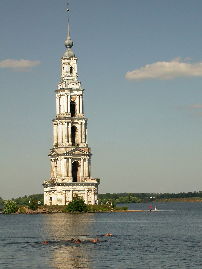 Belfry in Kalyazin (Tver region, Russia)